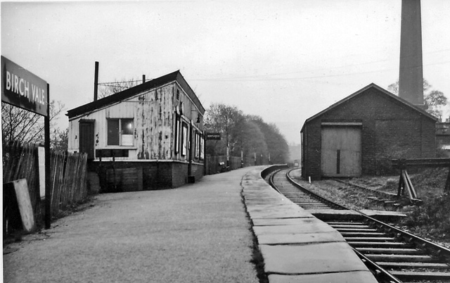 Birch Vale Station. View eastwards, towards Hayfield; ex-GC & Midland Joint (Manchester) - New Mills - Hayfield line, closed New Mills - Hayfield 5/1/70.